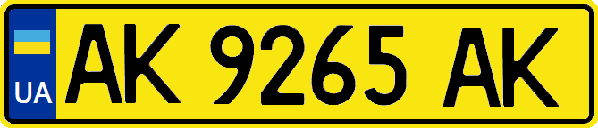 License plate of Ukraine